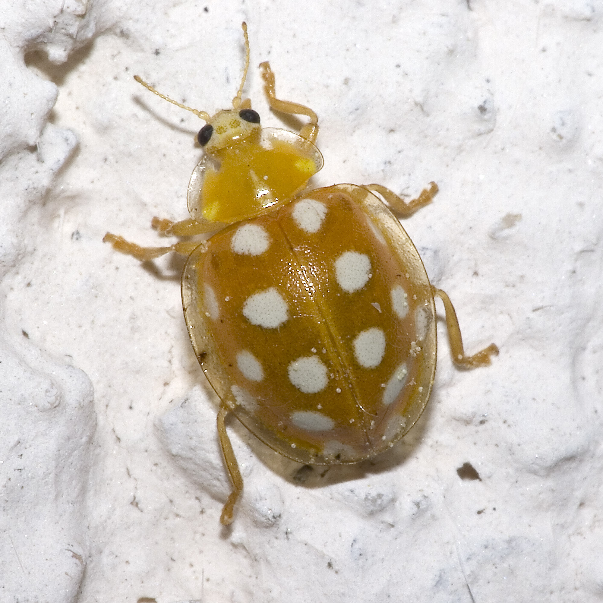 16-Spot Orange Ladybird, Halyzia sedecimguttata